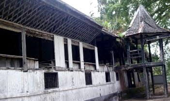 Fort Alice with timber missing from walls